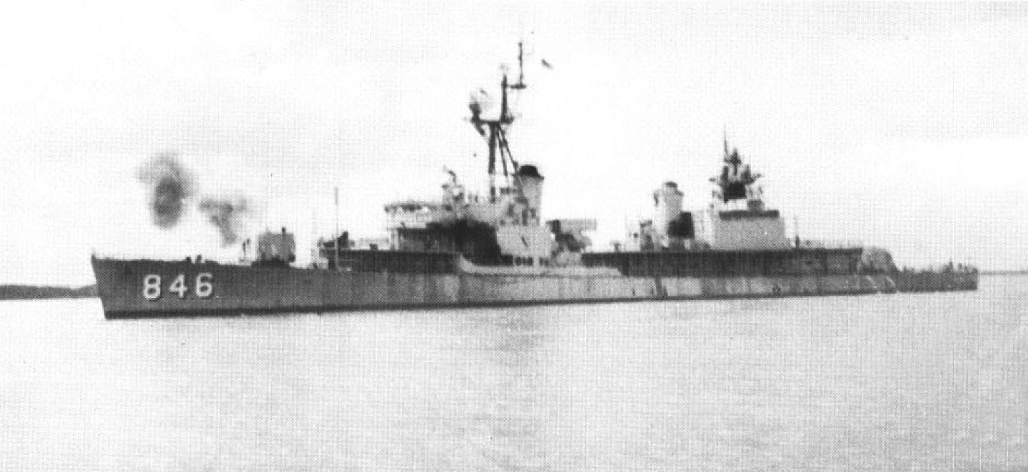 The U.S. Navy destroyer USS Ozbourn (DD-846) shelling targets in Vietnam, circa 1967.